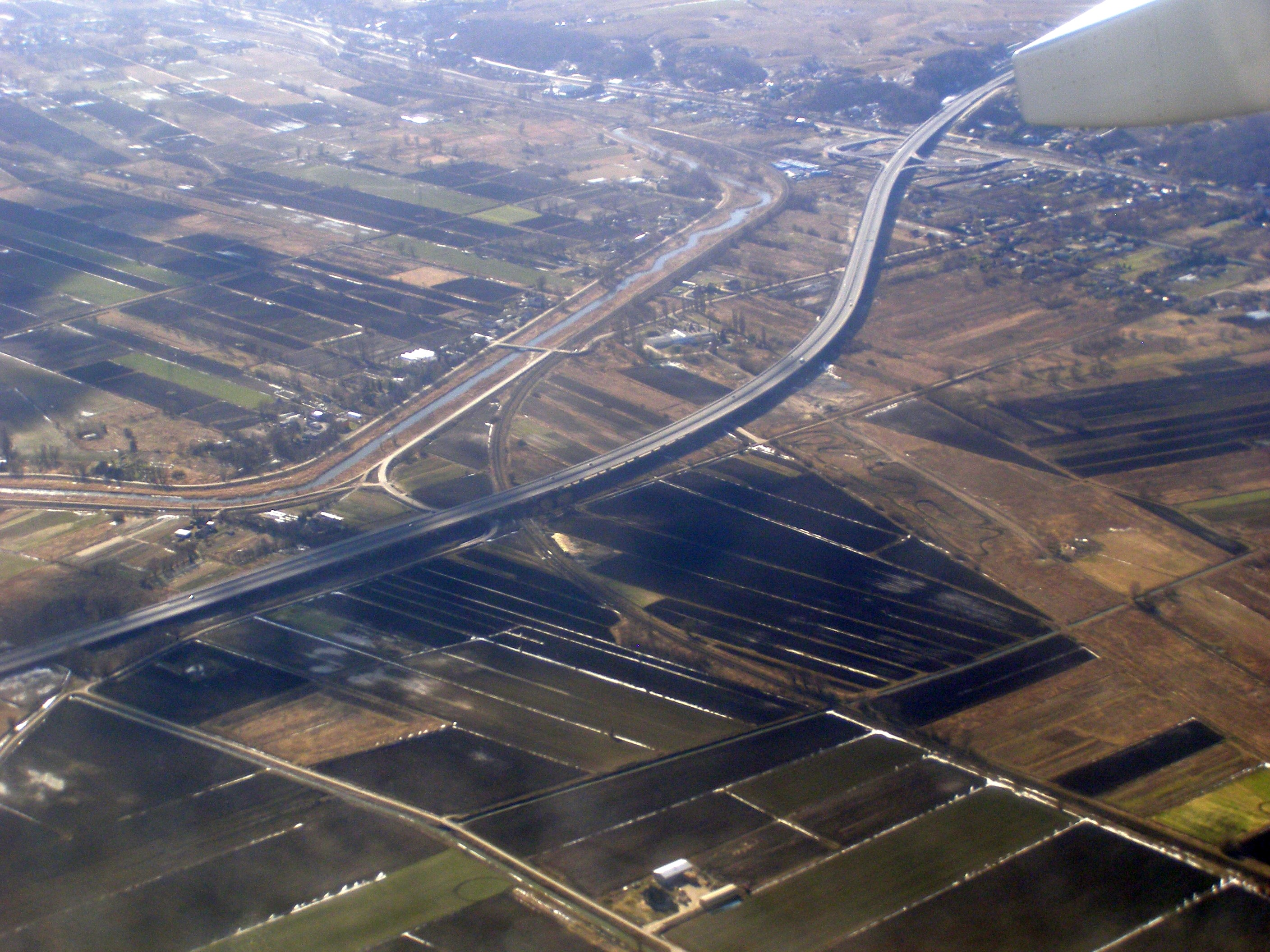 Southern Bypass of Gdańsk (S7 expressway) near Lipce interchange